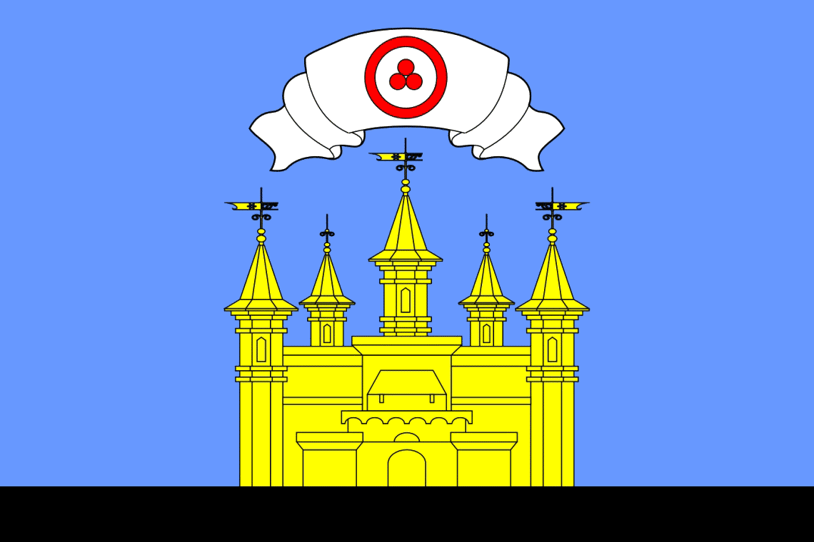 Flag of Izvarskoe rural settlement, Leningrad Region, Russia